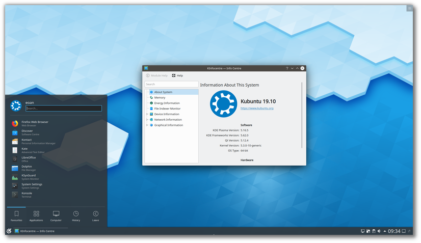 Screenshot of Kubuntu 19.10 (Eoan Ermine).